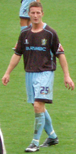 Lee Bullock. Image cropped from original at flickr.